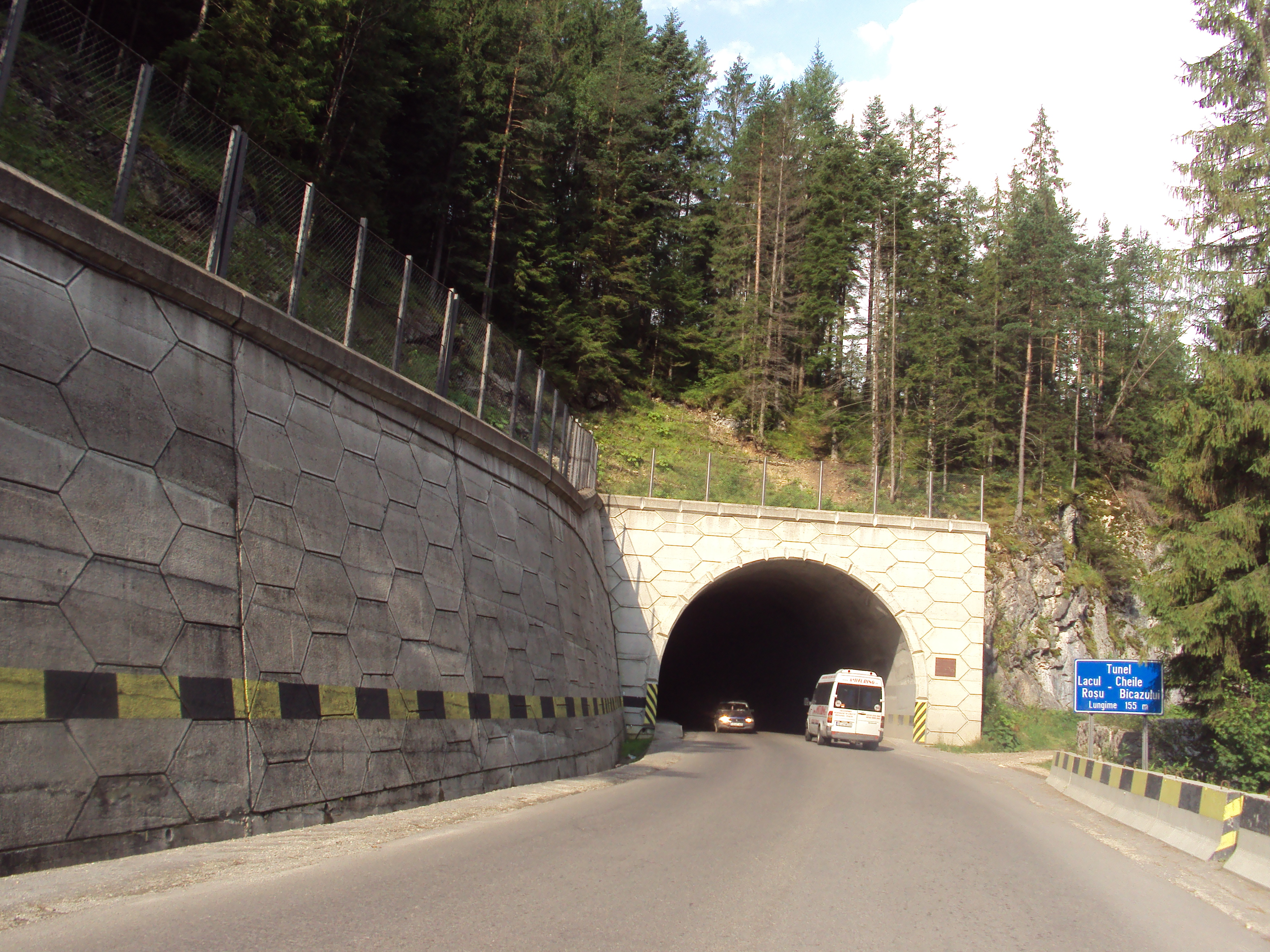 Eastern portal of Lacu Roșu tunnel on the Romanian national road DN12C.